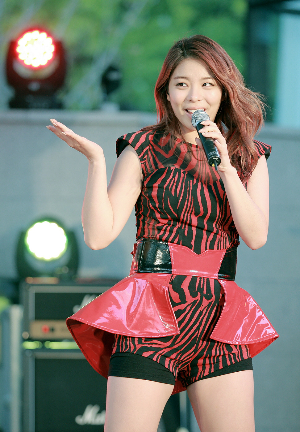 Ailee (South Korean singer) on Oct 11, 2013